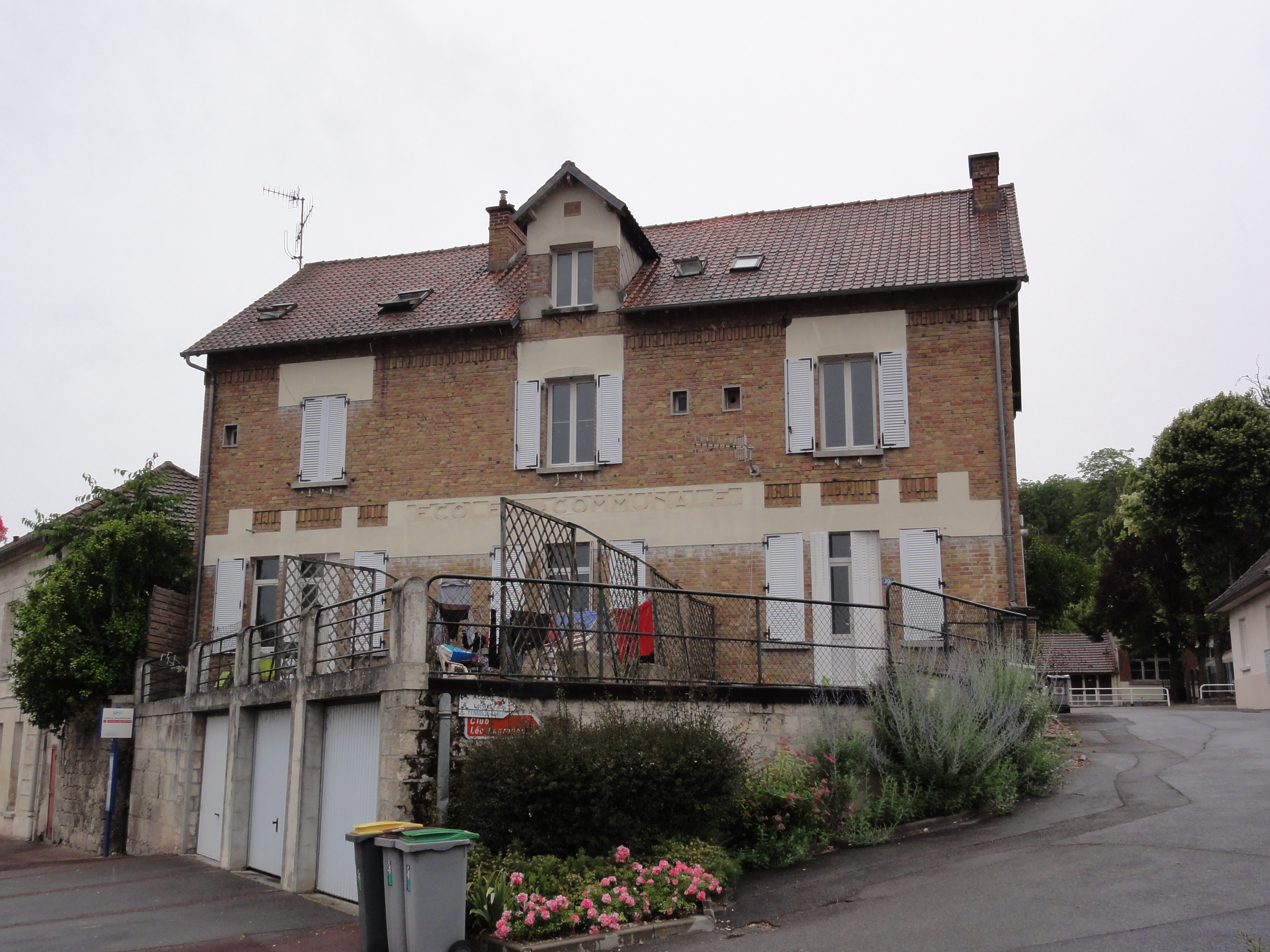 Cuffies (Aisne) école communale